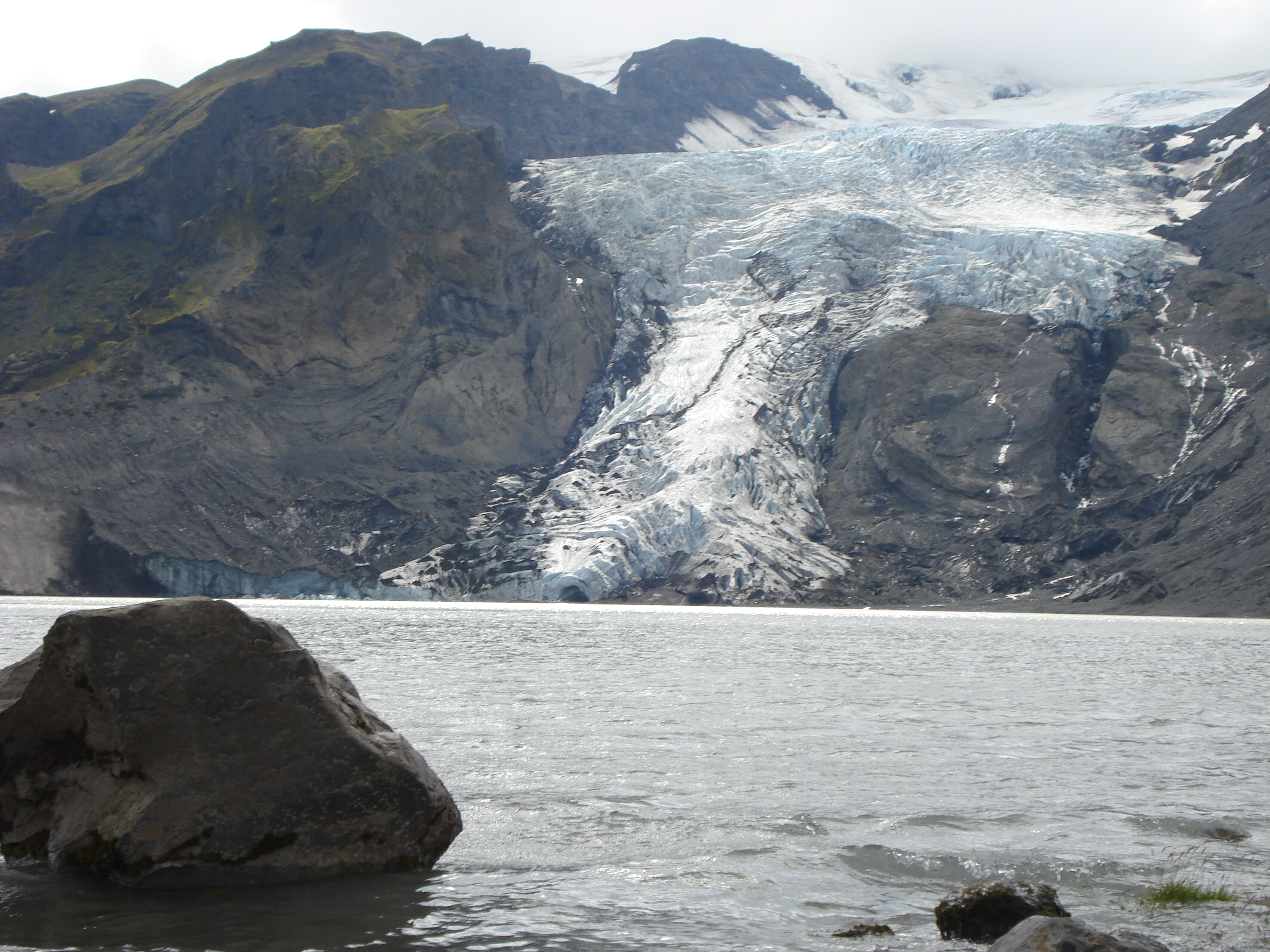 Gígjökull, Eyjafjallajökull, Iceland.